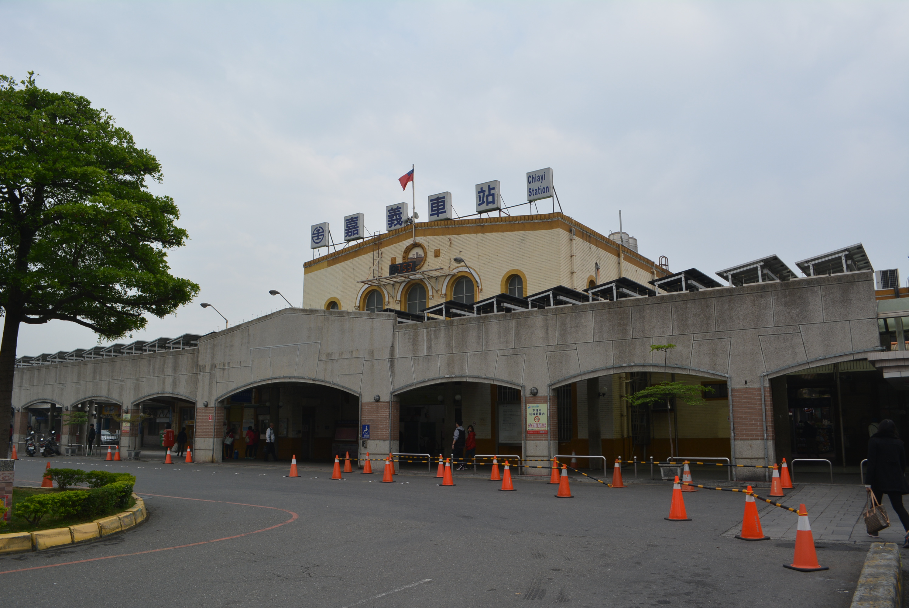 Chiayi Station Main building,Chiayi city,Taiwan